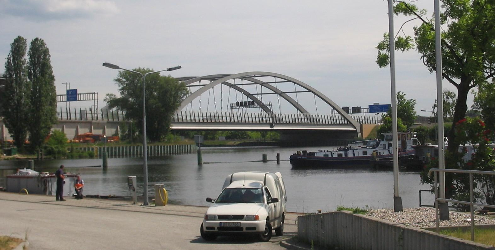 Hafen Britz-Ost (inland port) in Berlin-Britz at the meeting of the three canals Neuköllner Schiffahrtskanals (on the left), Britzer Verbindungskanal (in the center under the bridge) and Teltwokanal (on the right). The nameless motorway bridge is a part of the Bundesautobahn 113, situated in Berlin-Neukölln and crossing the Britzer Verbindungskanal at it’s mouth to the Landwehrkanal. The bridge was bulit in 2001/2002.